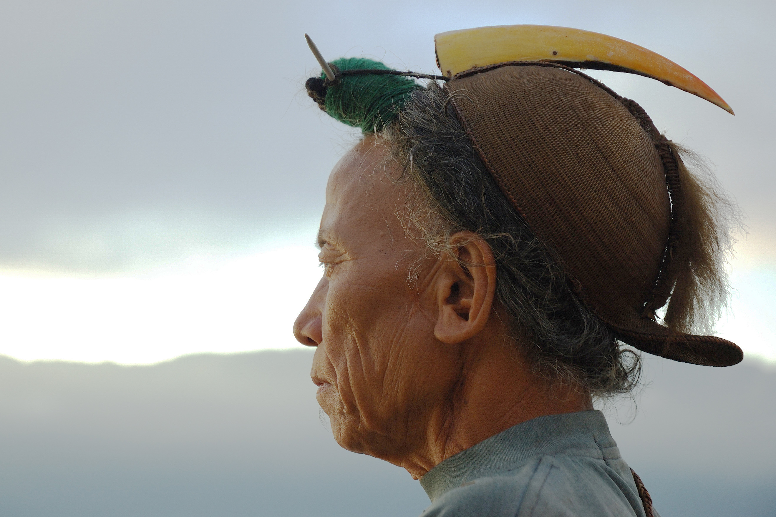 A Nishi/ Hill-Miri tribesman wearing the traditional head-dress having a hornbill beak.